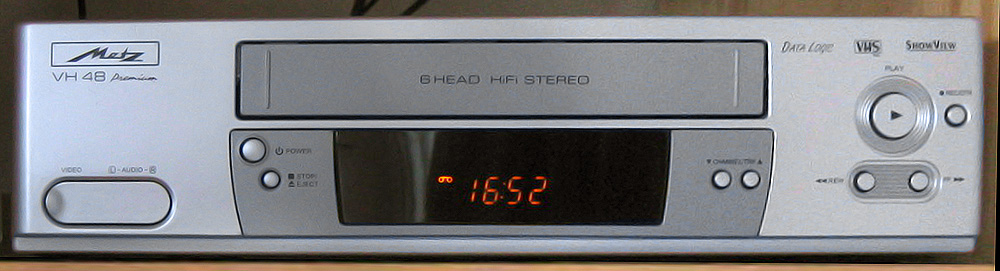 Metz Videorecorder VH48 *Author: --Thomaswm 18:56, 21 January 2006 (UTC) *Photo taken by: --Thomaswm 18:56, 21 January 2006 (UTC)